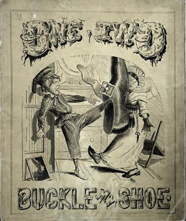 Augustus Hoppin's nonsense illustration of "One Two, Buckle my Shoe", published in New York about 1870